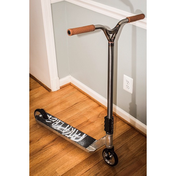 Depiction of a fully assembled Freestyle Scooter